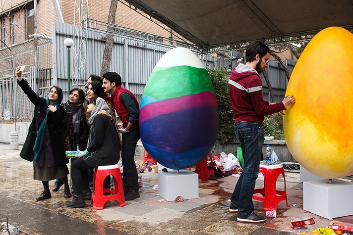 Painting eggs for Nowruz in Tehran's streets.